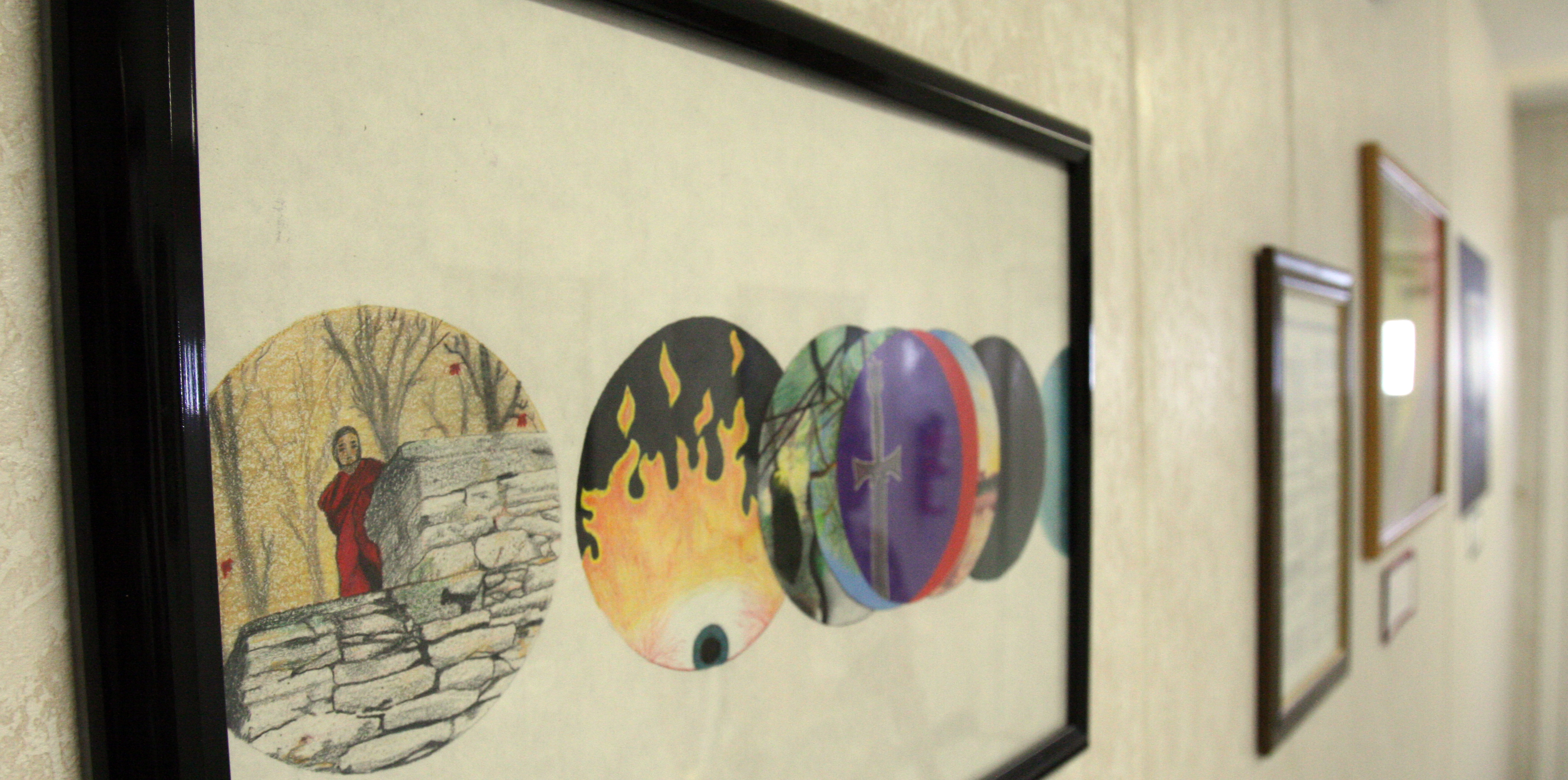 Paintings by Marines and sailors who attend art therapy to relieve post-traumatic stress disorder symptoms dress the wall during an art expo May 3. The purpose of the expo was to raise awareness about PTSD and the benefits of art therapy. During therapy sessions, participants use a variety of art supplies, including paints, clay, markers, charcoal and images for collages, to express their thoughts, feelings and memories. (Official U.S. Marine Corps photo by Cpl. Andrew Johnston)